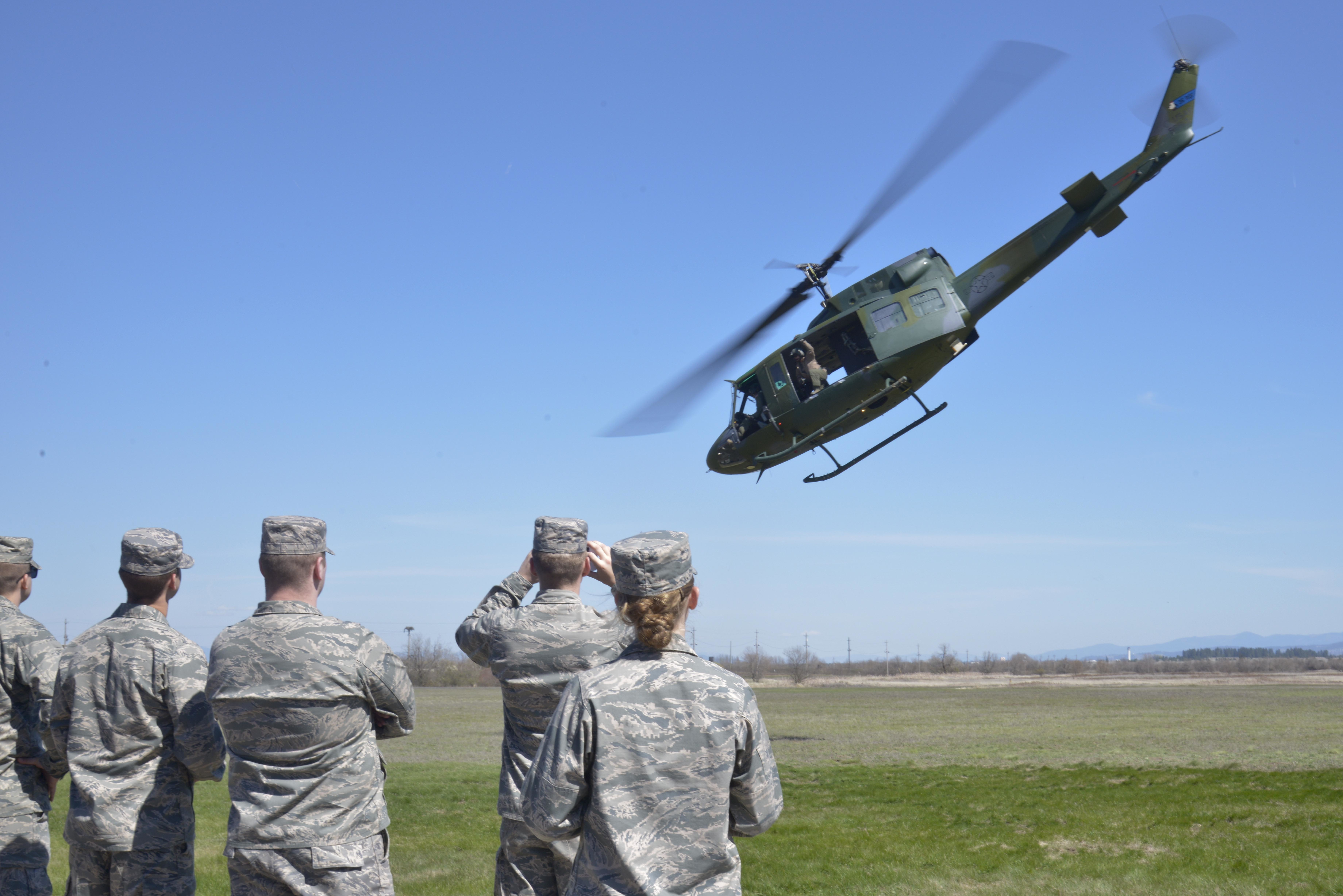 Central Washington University Air Force ROTC students take photos and record videos while members of the 36th Rescue Flight conduct a UH-1N Iroquois helicopter demonstration during a base wide tour April 17, 2015, at Fairchild Air Force Base, Wash. Students were given a chance to see and explore not only the main part of the base, but also what the Survival, Evasion, Resistance and Escape School teaches students going through the training. (U.S. Air Force photo/Senior Airman Janelle Patiño)